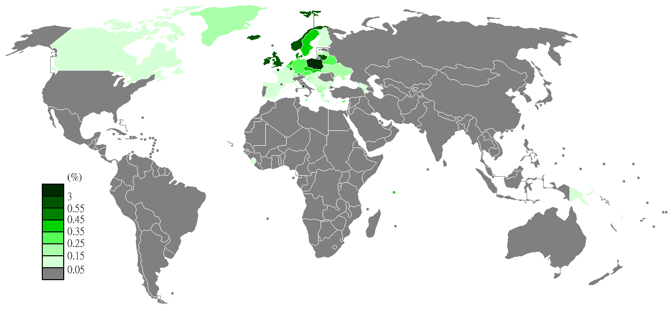 Polish Wikipedia Page view ratio by country 201110-201209